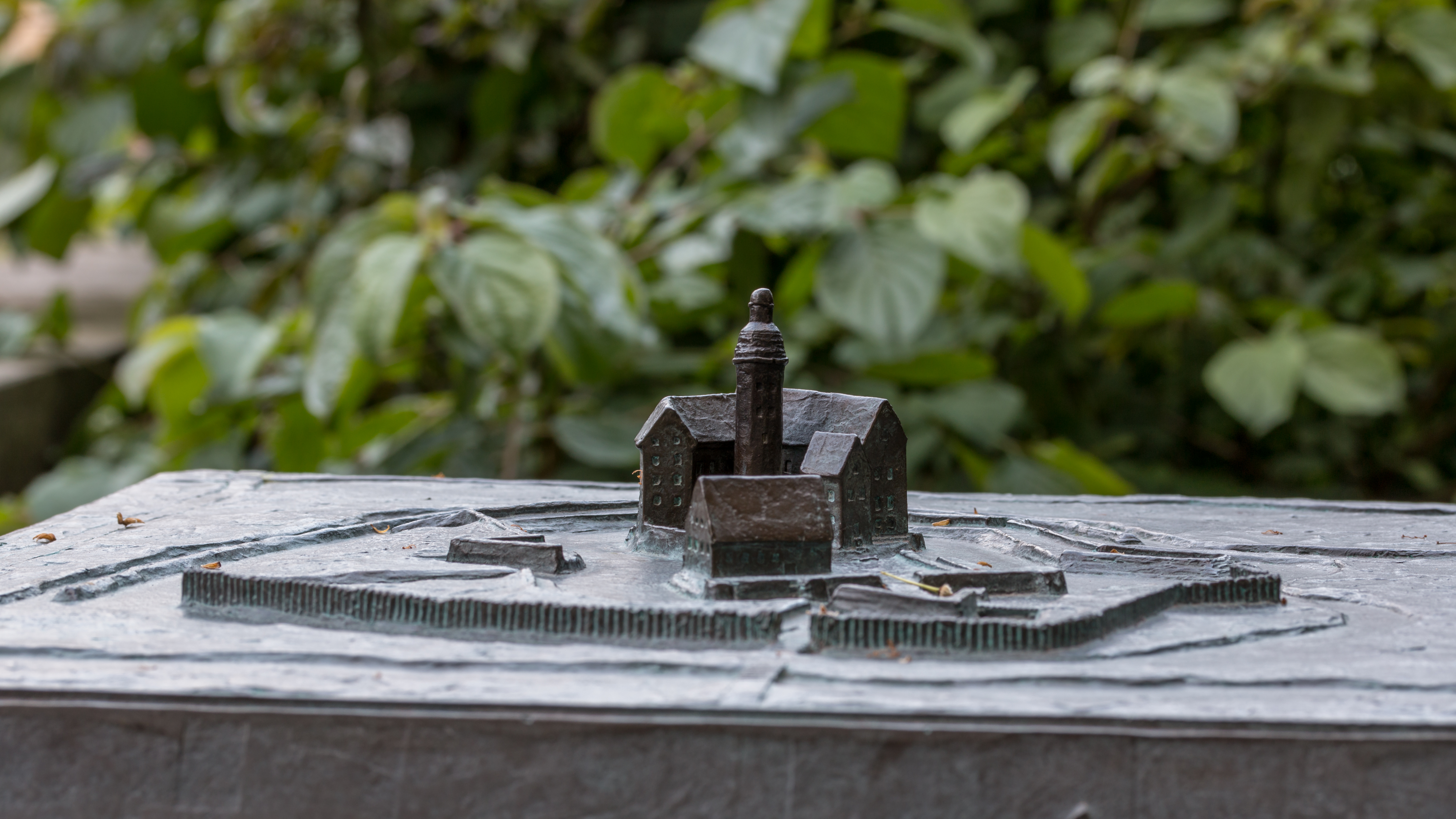 Model of the Lüdinghausen castle (Frantz Wittkamp, 2014), Lüdinghausen, North Rhine-Westphalia, Germany This image shows a heritage building in Germany, located in the North Rhine-Westphalian city Lüdinghausen (no. A/021). Sculpture TitleBurg LüdinghausenArtistFrantz WittkampDate2014